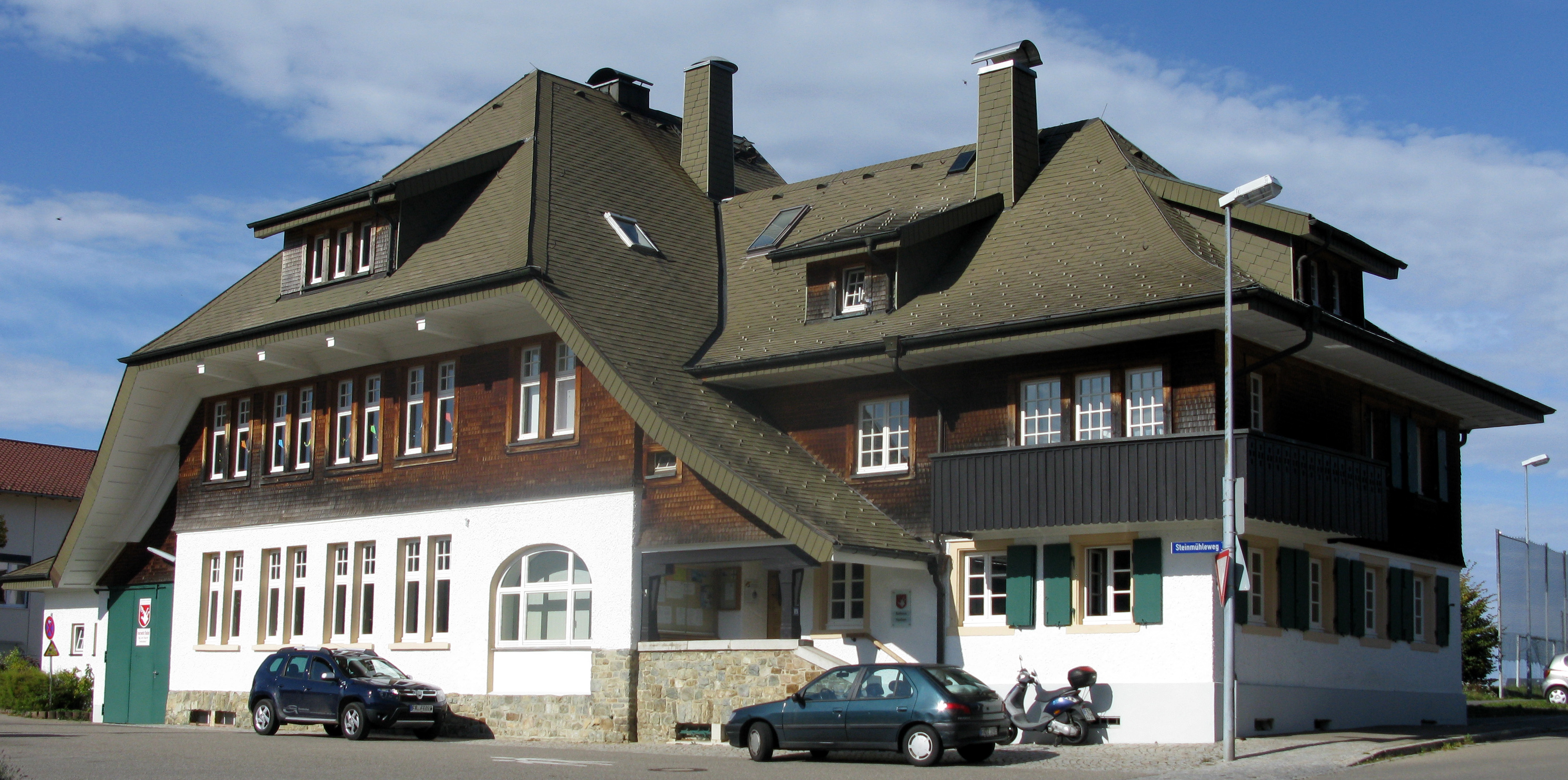 Horben, Townhall